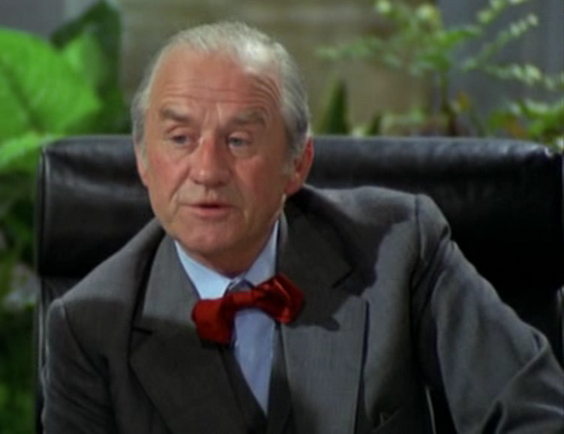 Cyril Cusack in a scene of the film La mala ordina